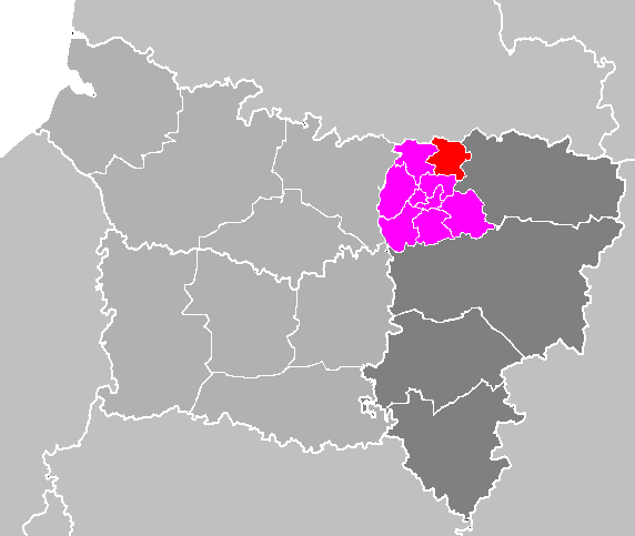 Maps of arrondissements and cantons of France